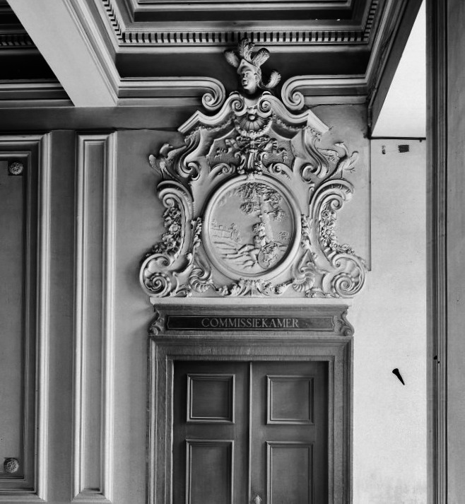 Town hall, Maastricht, The Netherlands. Entrance to Commission's Chamber from main hall. Stucco relief by Tomaso Vasali showing putto with coat of arms of Brabant (ca. 1735).